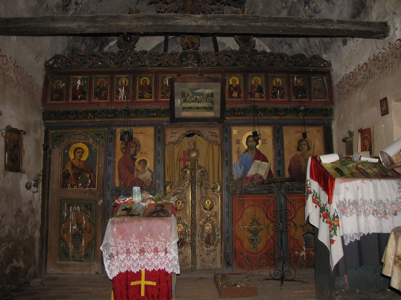 Church of Saint George in Osmakova, municipality Pirot. One of the oldest churches in Pirot.